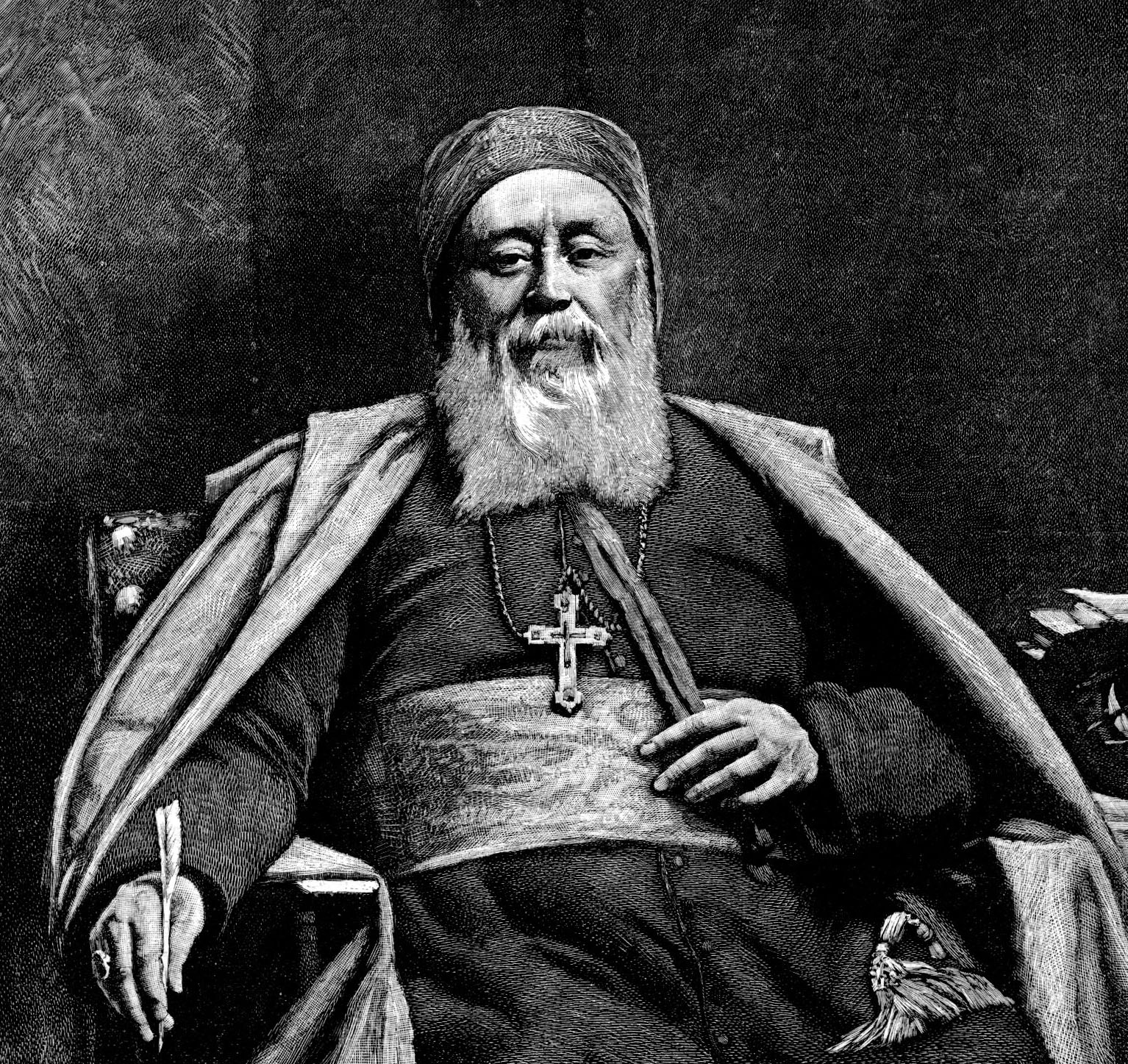 Cardinal Charles-Martial-Allemand Lavigerie, Archbishop of Algiers